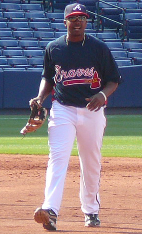 User:Chrisjnelson agreed to license this image of Ruben_Gotay3.jpg under a free attribution license. Any use of this image must be attributed; this means that Photo by :en:User:Chrisjnelson|Chris Nelson should be in the picture caption. 22:09, 23 April 2008 . . Chrisjnelson . . 288×474 (161 KB)